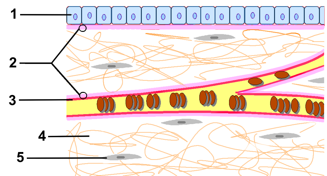 Extracellular Matrix